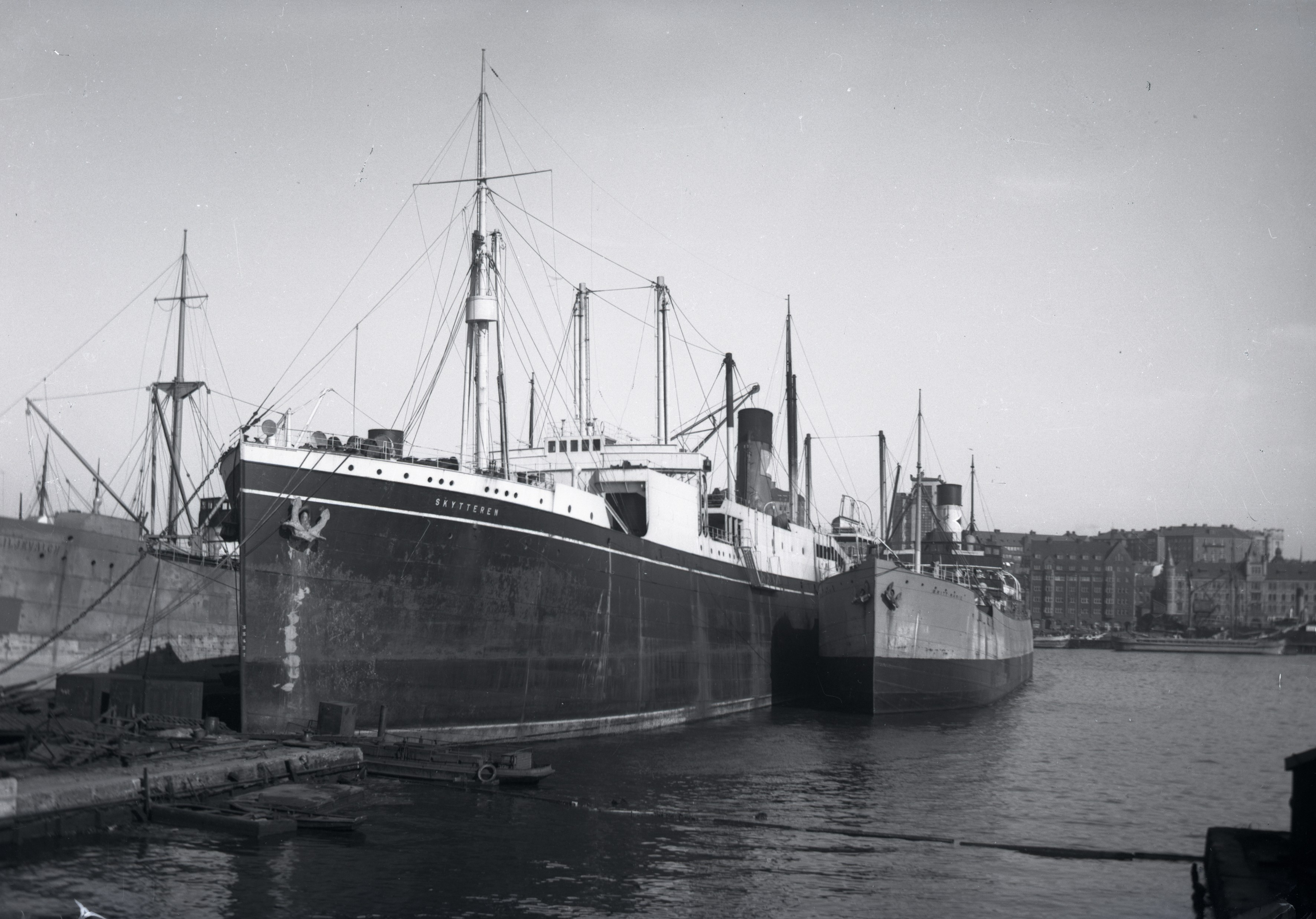 Norwegian kvarstadship, whaler S/S Skytteren berthed in Göteborg harbour in the beginning of WWII.